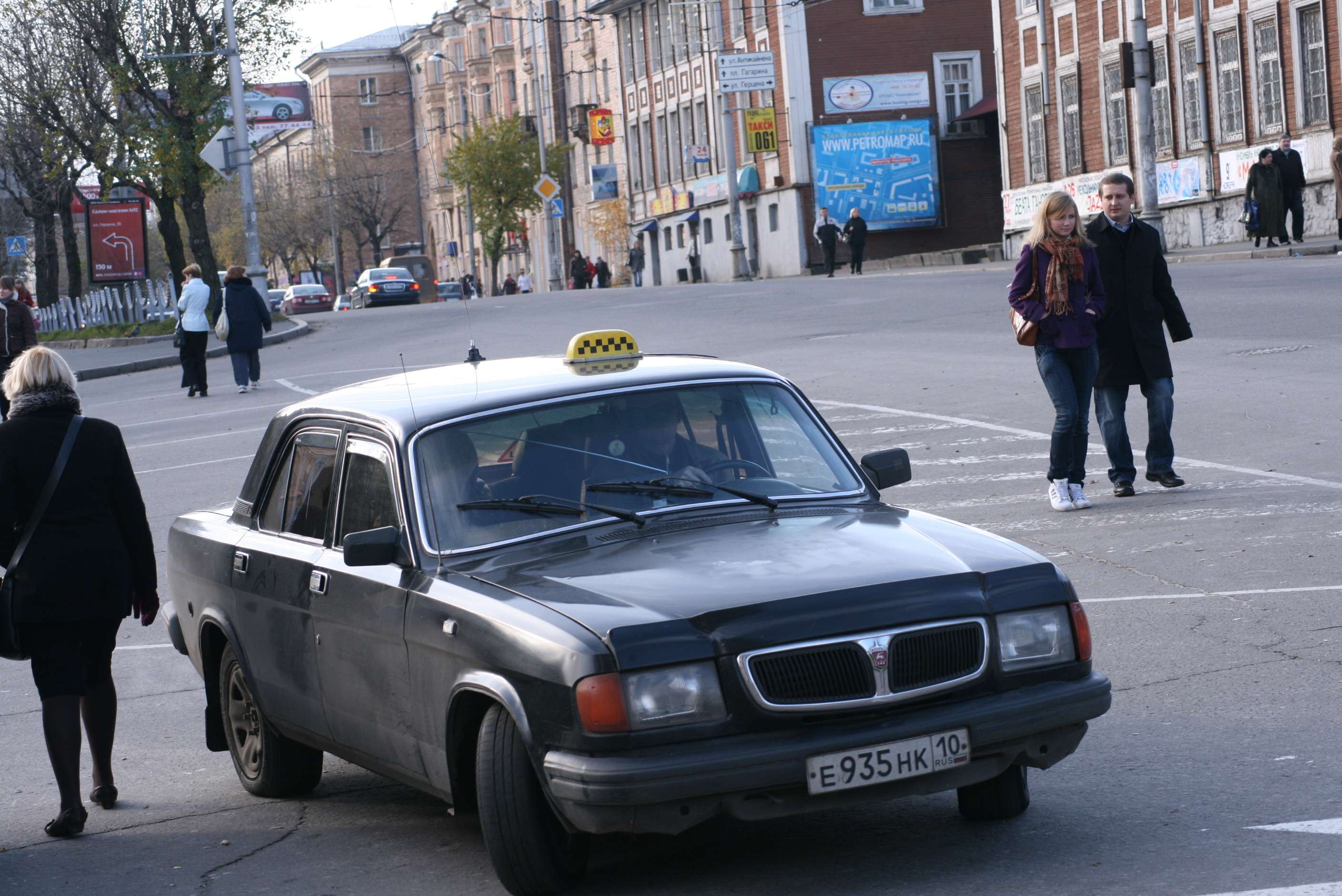 Petrozavodsk traffic taxi